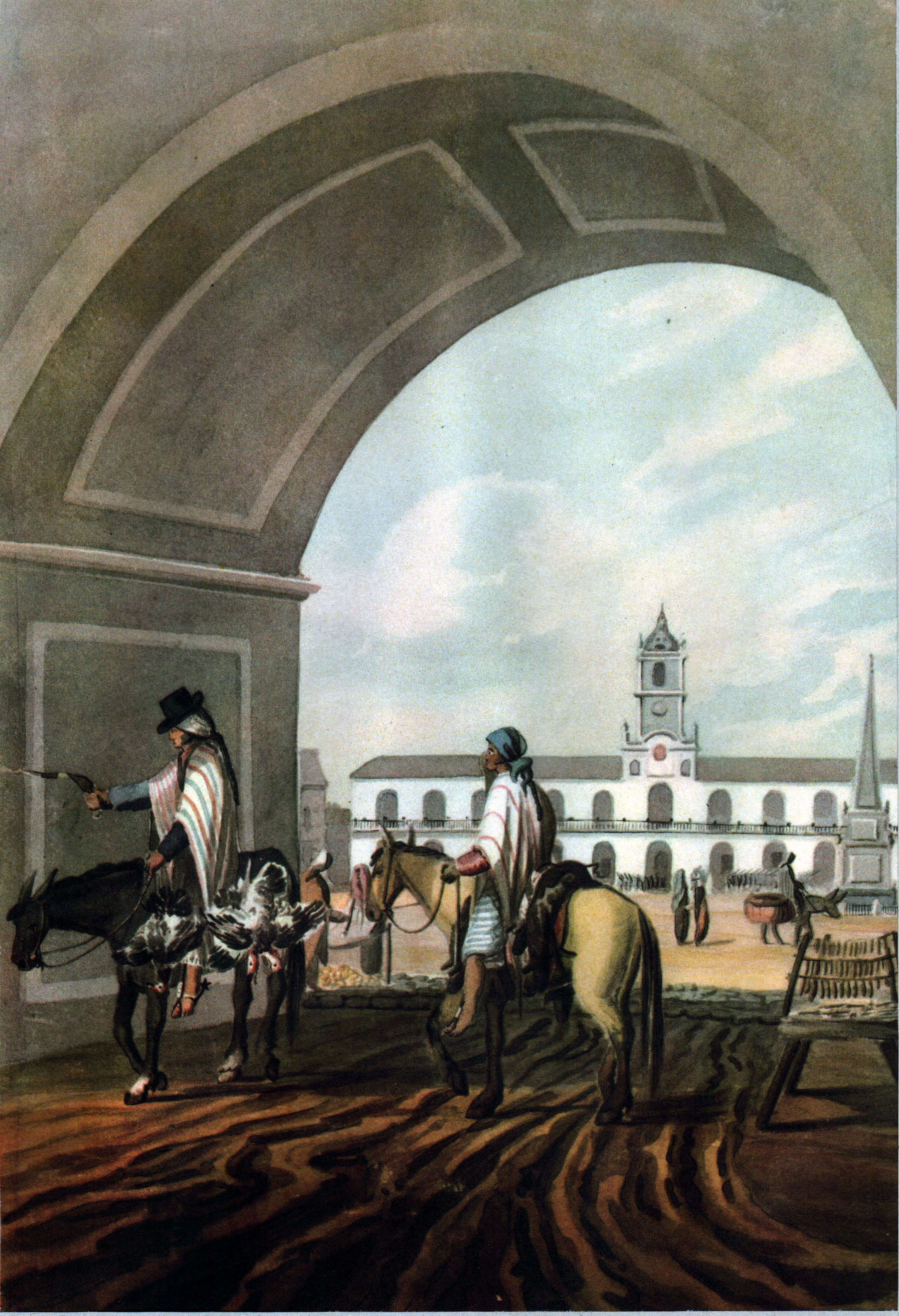 Painting by Emeric Essex Vidal (1791-1861): "The Plaza or Big Square of Buenos Aires". View of the Cabildo from the Recova. Buenos Aires. Argentina. Acuarela de Emeric Essex Vidal (1791-1861): "La Plaza o Gran Square de Buenos Aires". Vista del Cabidlo desde la Recova. Buenos Aires. Argentina.